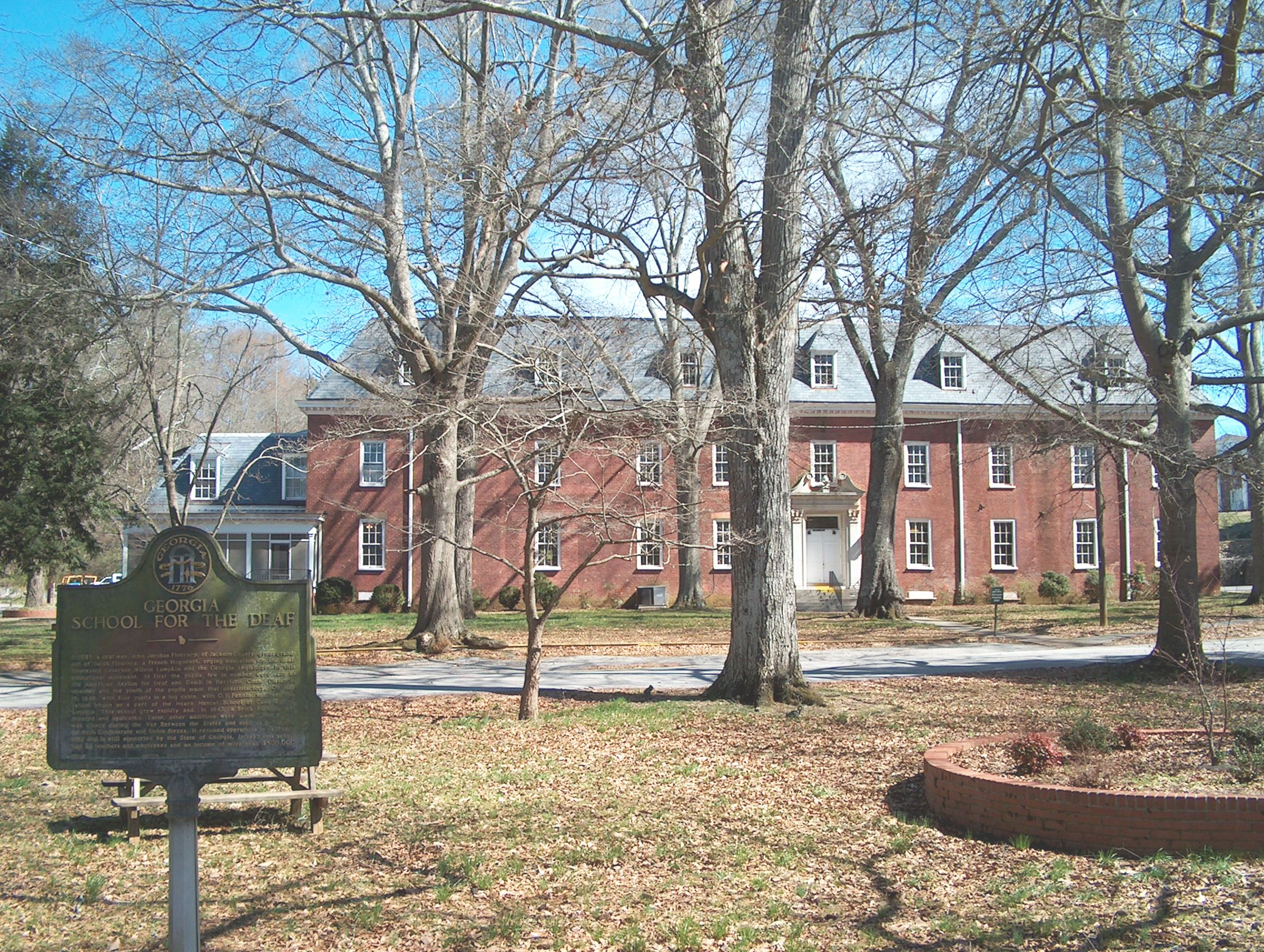 The building of the Georgia School for the Deaf, Fannin Hall, built in 1846, as a field hospital for Civil War soldiers during American Civil War and school for deaf students.